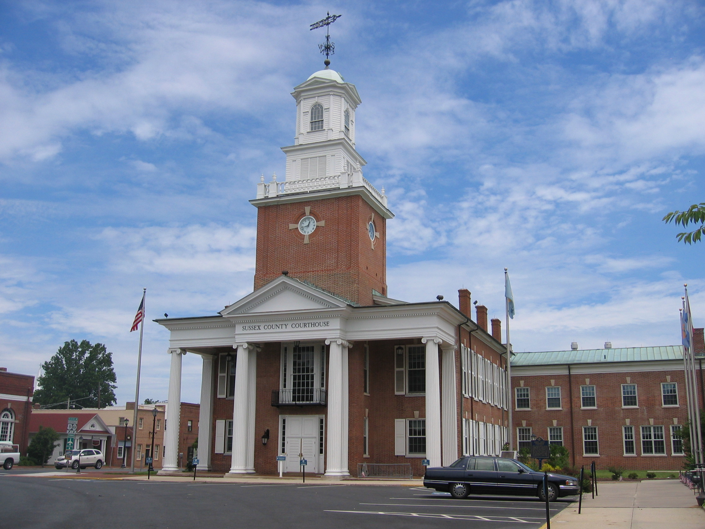 Designed by renowned architect William Strickland, the Sussex County Courthouse was built between 1837-1839 on the same location as the Old Courthouse. More information on historic sites in Georgetown, Delaware can be found in this walking tour of historic Georgetown.